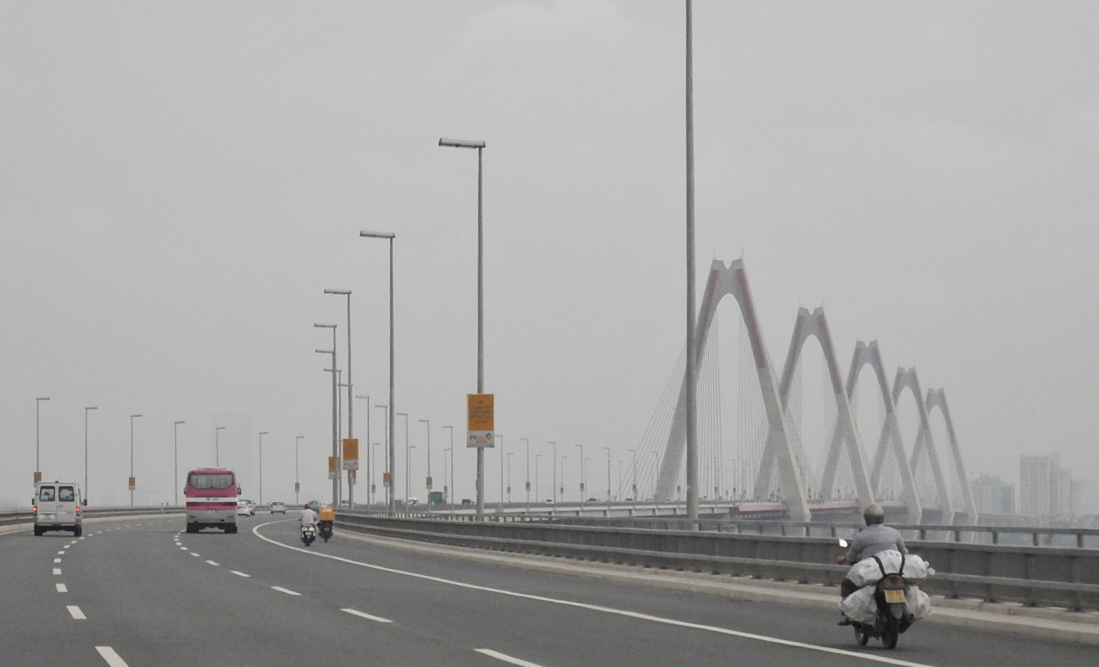 Bridges in Hanoi